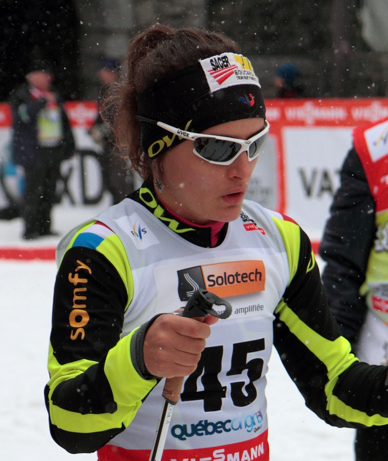 Celia Aymonier, FIS Cross-Country World Cup 2012, Quebec, Canada.